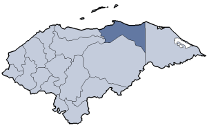 Division of Honduras